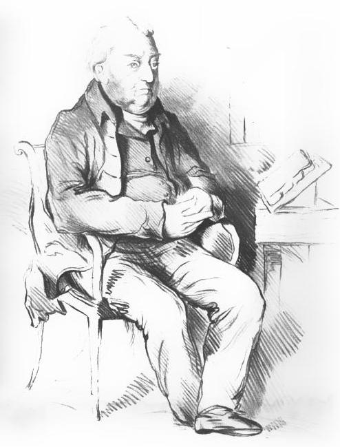 Roger Wilbraham FSA MP FRS born 1743 - engraving from 1828